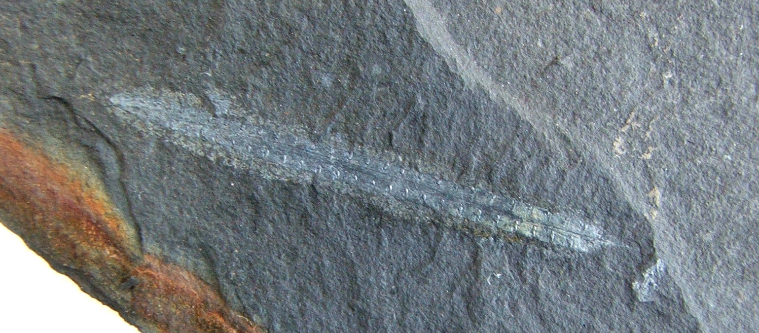 graptolith, found in Gislövshammar, southern Sweden